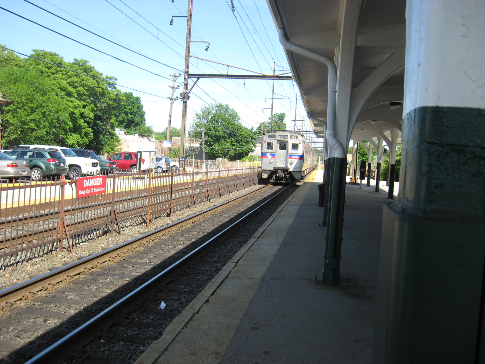 Looking southbound at the Glenside SEPTA station